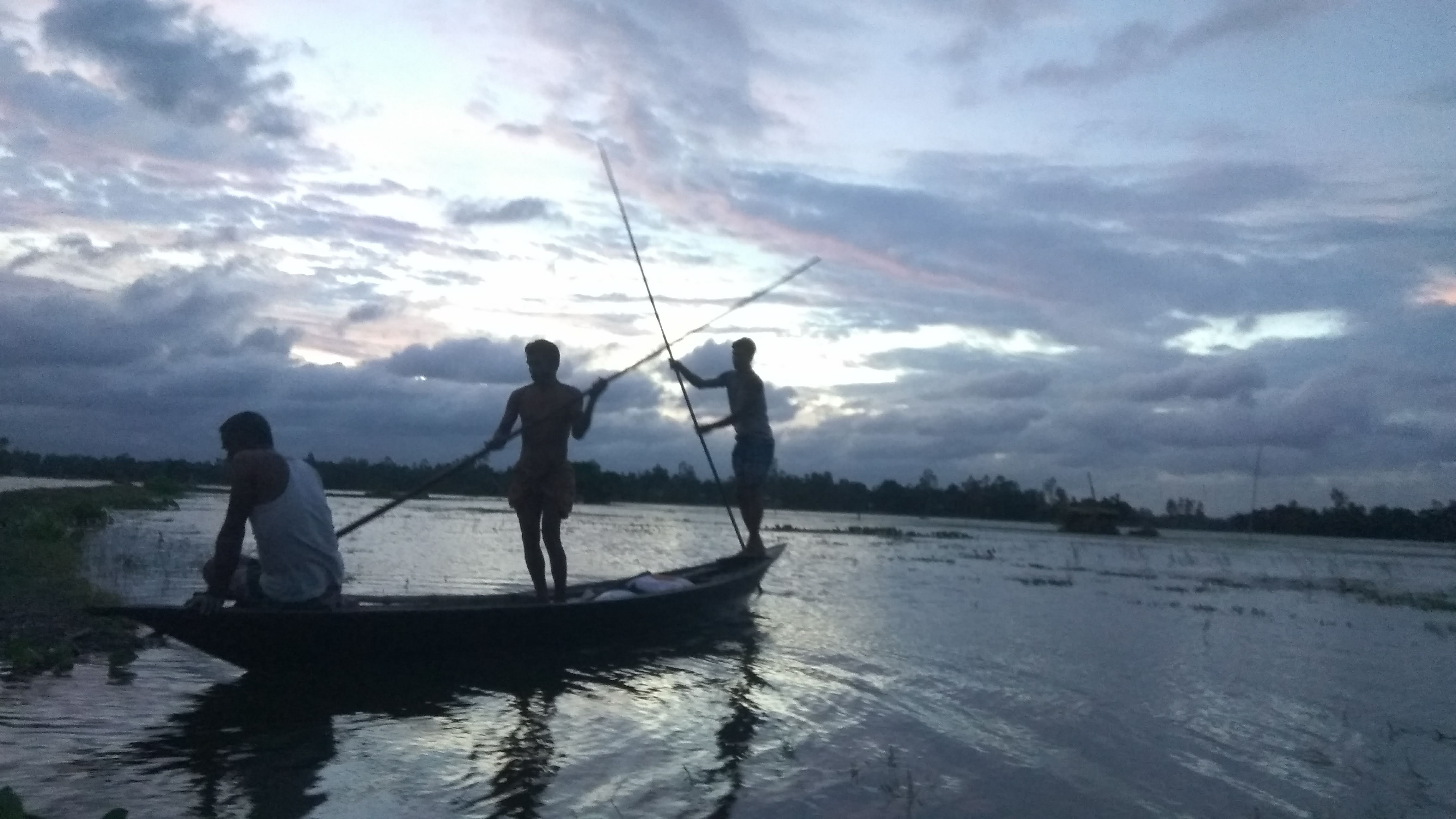 Nature of Ghatail Upazila